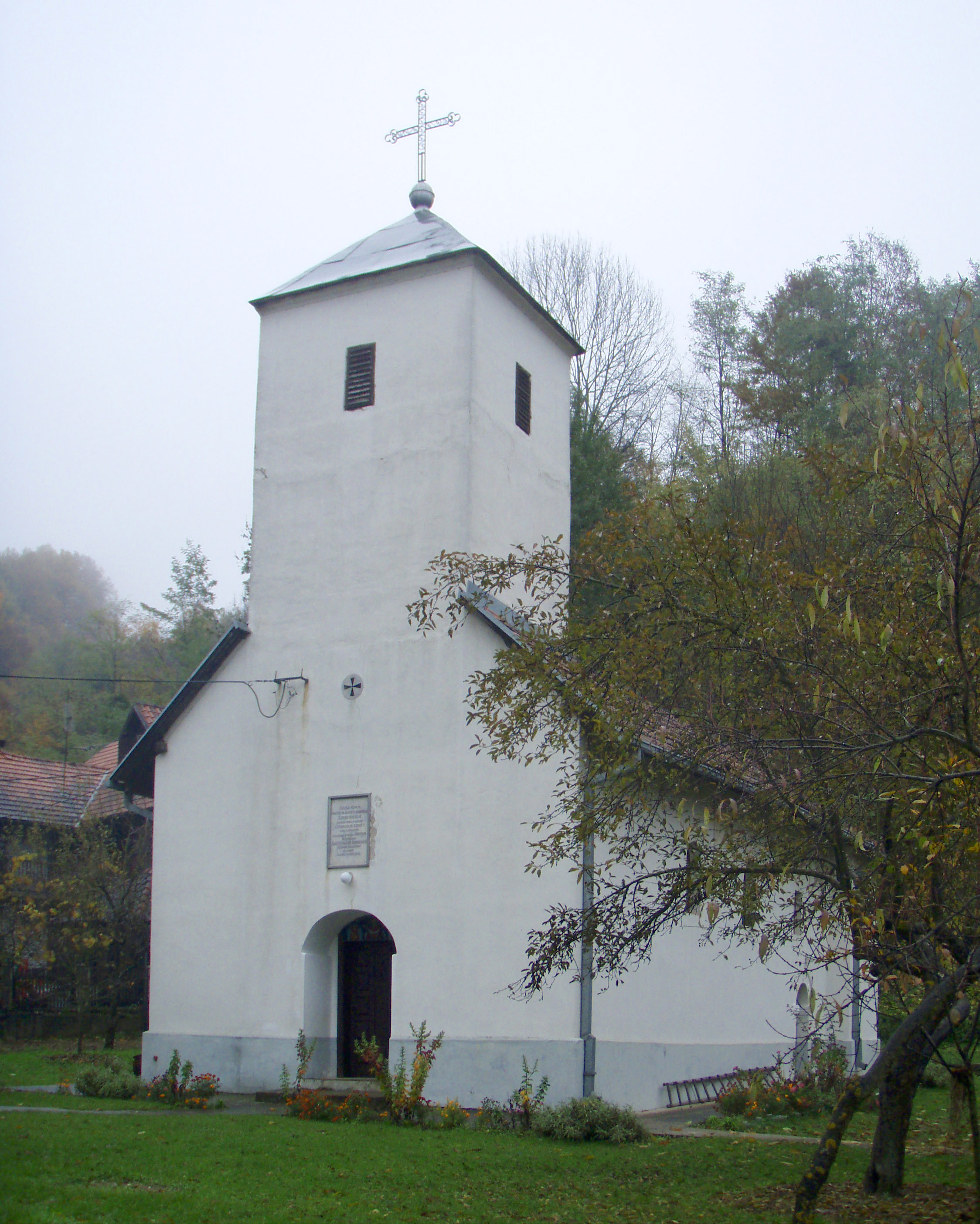 Serbian orthodox church in Gornji Banjani, Serbia/L'église orthodoxe serbe de Gornji Banjani, Serbie